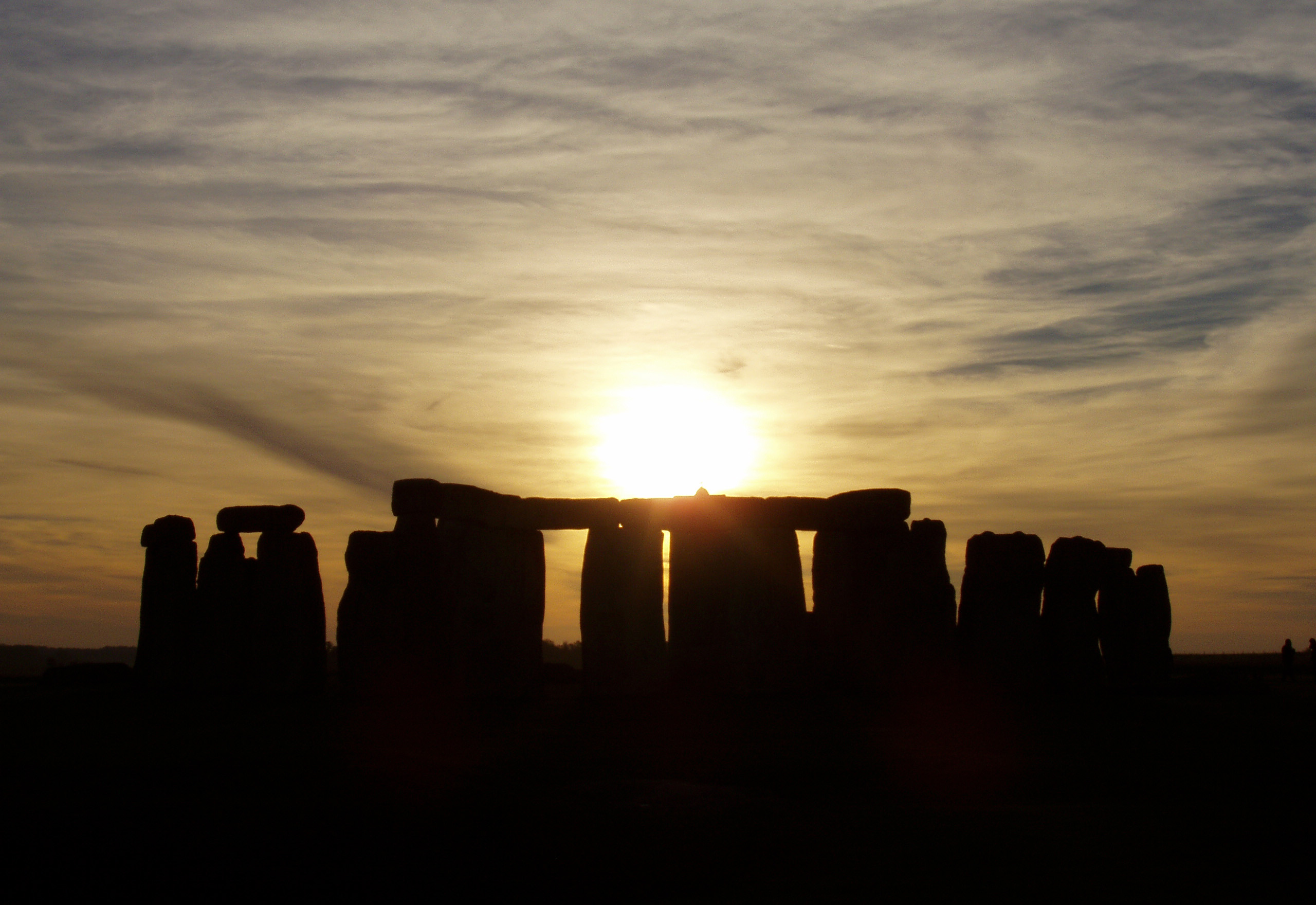 Stonehenge at sunset on a cloudy day.